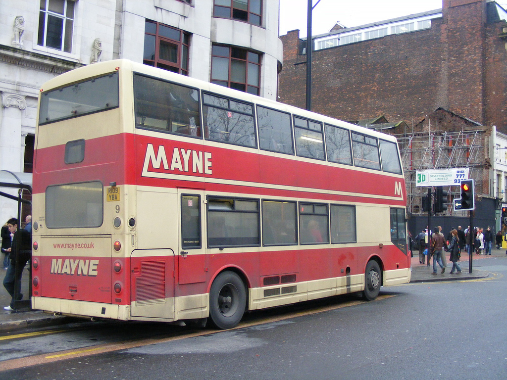 One of Mayne's (Manchester) buses, bus 9 (R109YBA) a Scania N113DRB/East Lancs at Manchester Piccadilly.